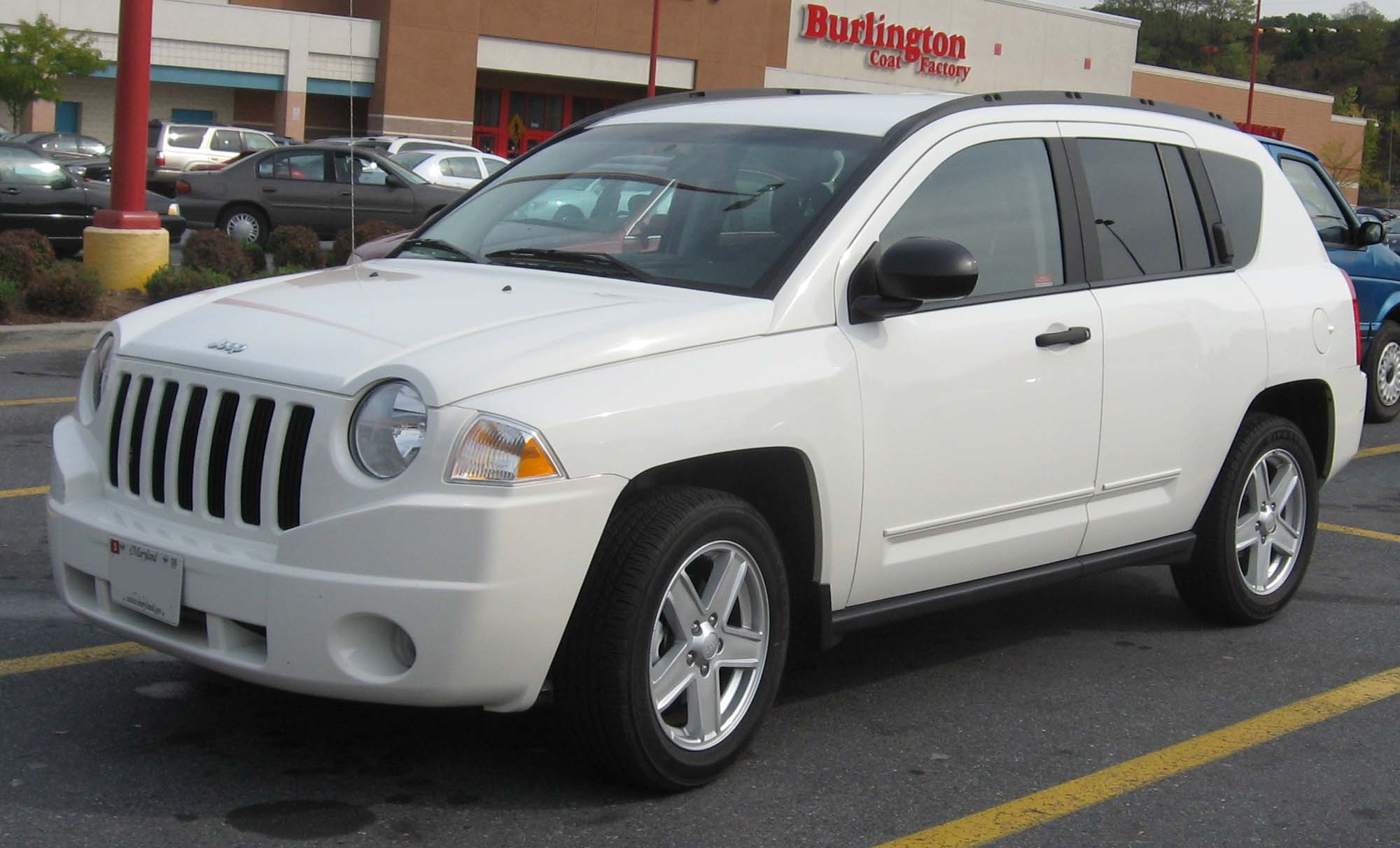 2007-2008 Jeep Compass photographed in Greenbelt, Maryland, USA.